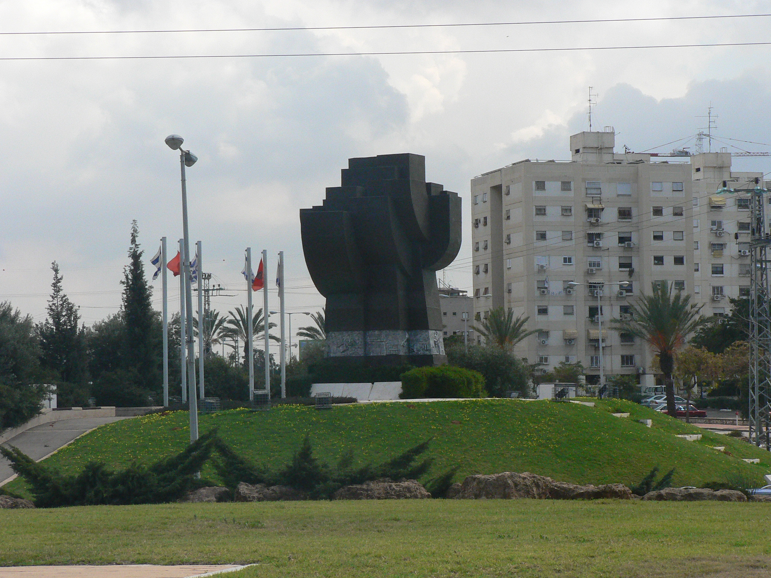 Rishon LeZion - Monument for the fallen soldiers of Israel. Designed by Eliezer Weishoff ראשון לציון - אנדרטה לחללי מערכות ישראל